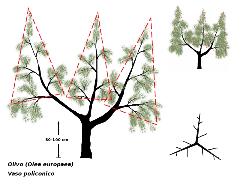 Olive-tree growing systems: polyconic vase form